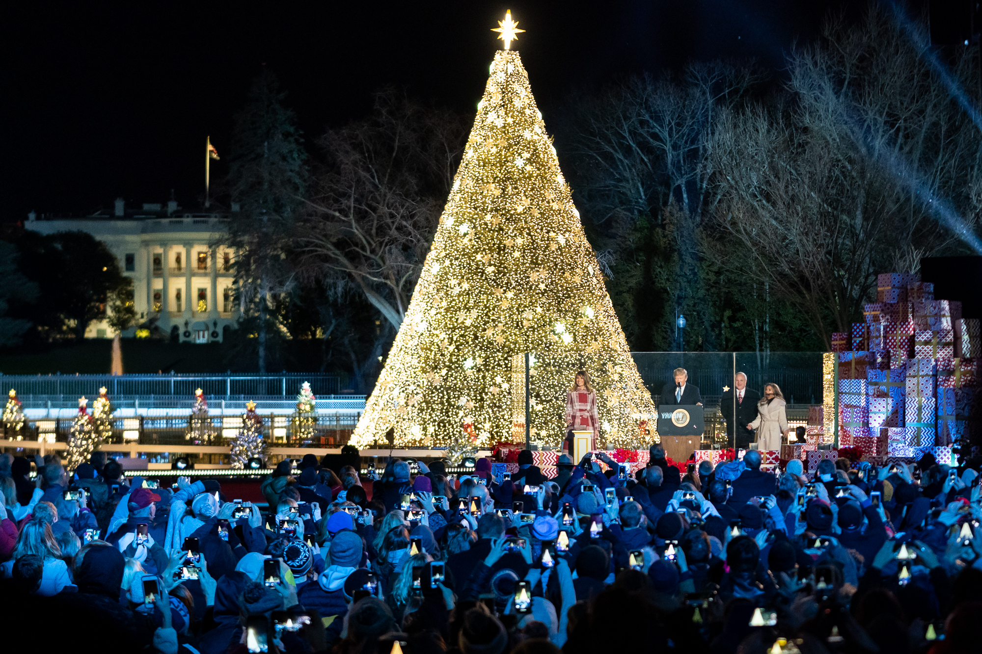 First Lady Melania Trump, joined by President Donald J. Trump, lights the 2019 National Christmas Tree during the 97th annual National Christmas Tree Lighting Ceremony Thursday, Dec. 5, 2019, on the Ellipse in Washington, D.C. (Official White House Photo by Andrea Hanks)